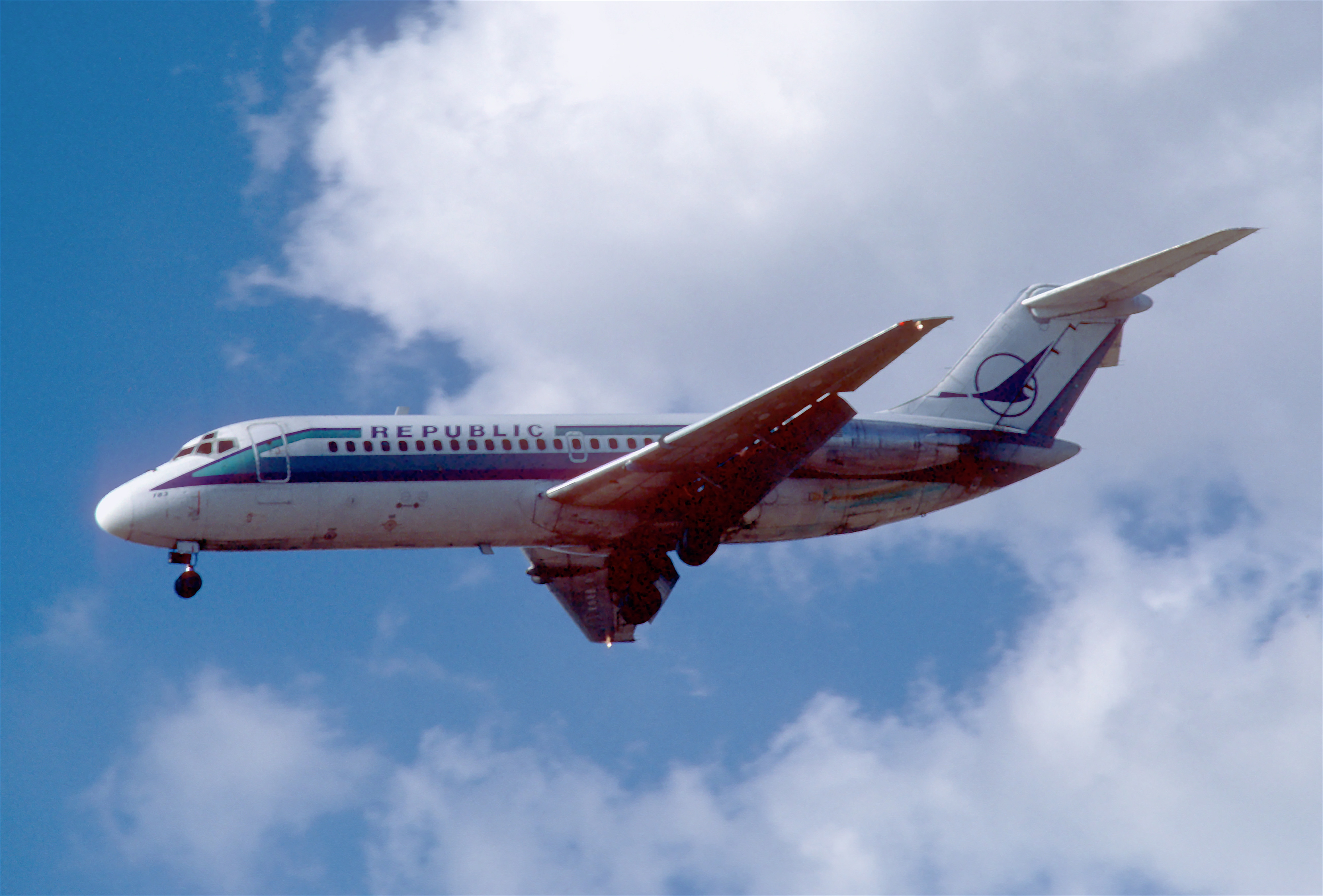 Republic Airlines DC-9-14; N8906E, August 1984/ BUL